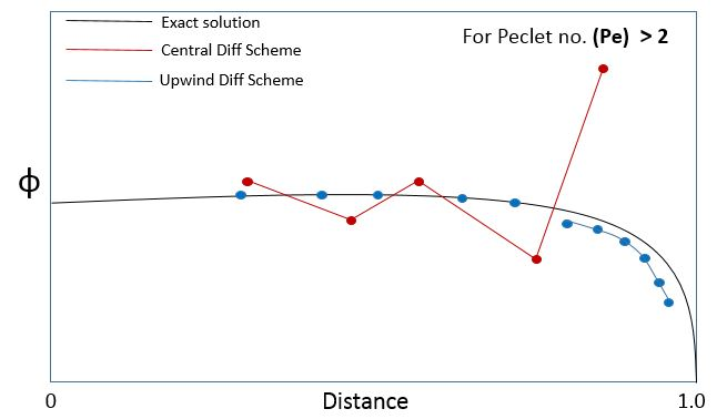 This diagran describes the Comparison of central differencing scheme with upwind differencing scheme for peclet no. greater greater than 2 "OR" less then -2 showing the inability of central differencing scheme to converge the solution